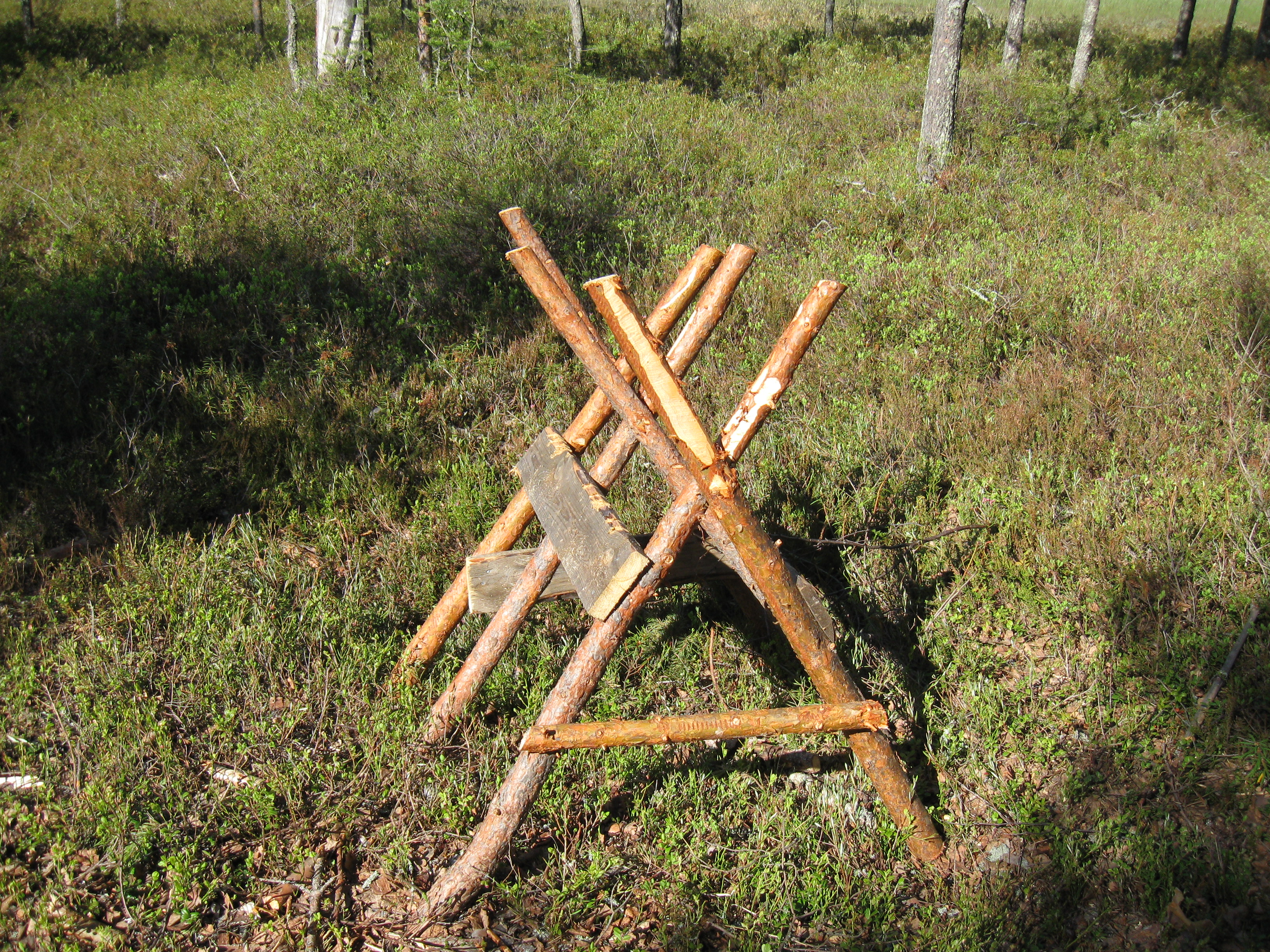 A self-made simple sawbuck of a Finnish fishing and hunting hut.